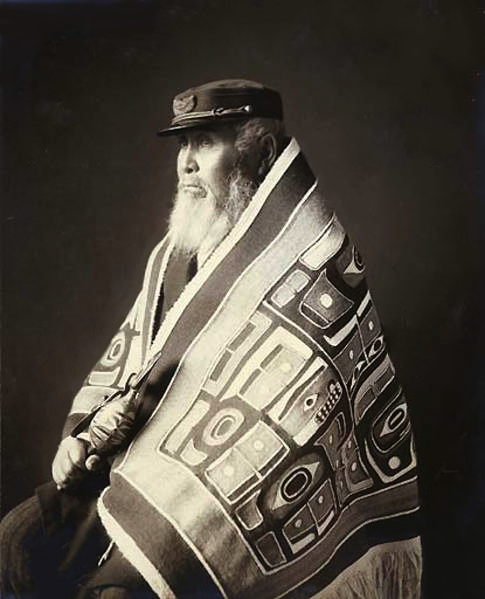 Chief Anotklosh of the Taku nation. He wears a woven Chilkan blanket of cedar bark and mountain goat wool and a European-style cape, and holds a carved wooden bird rattle. Photograph by W.H. Case, ca. 1913, Juneau, Alaska